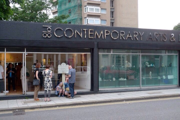 external view of 198 Contemporary Arts and Learning, Railton Road, London, 2010